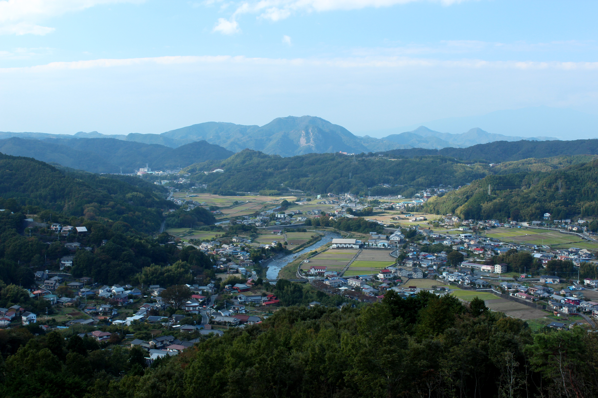 View of Izu in Shizuoka Prefecture, Japan. Omi River in the center.